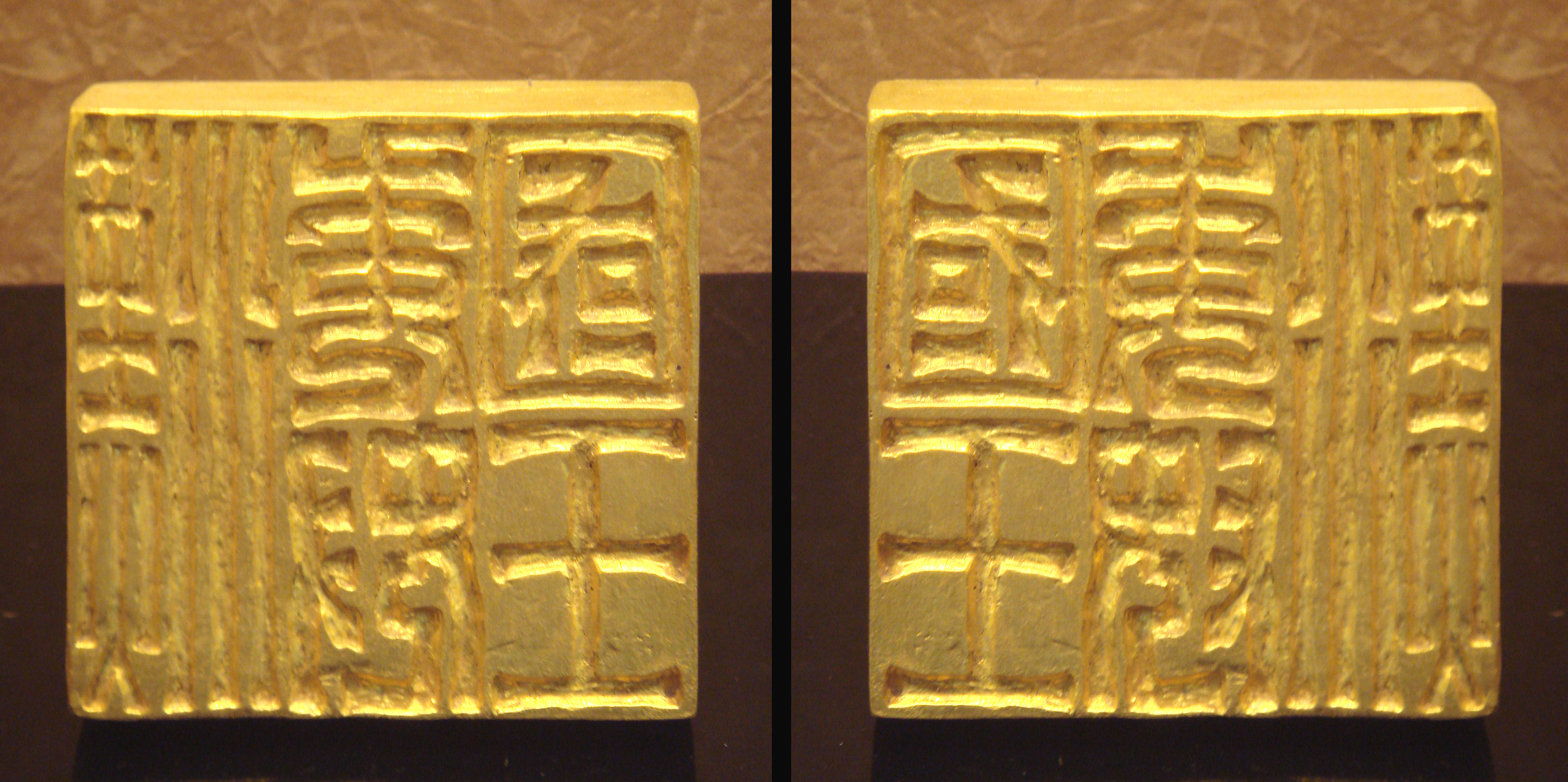 Seal face of the King of Na gold seal, with its mirror image on the right side. The mirror-inverted version allows one to read the characters ( 漢委奴國王 ) normally.